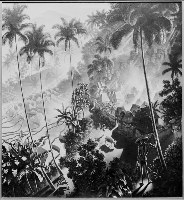 Walter Spies' painting "Iseh im Morgenlicht"